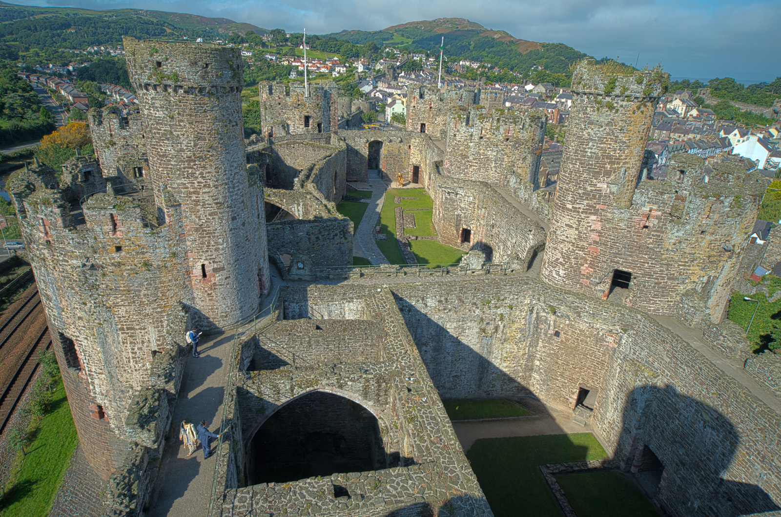 Conwy Castle (HDR)